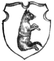 Coat of arms Kot Morski from Herby rycerstwa polskiego by Bartosz Paprocki